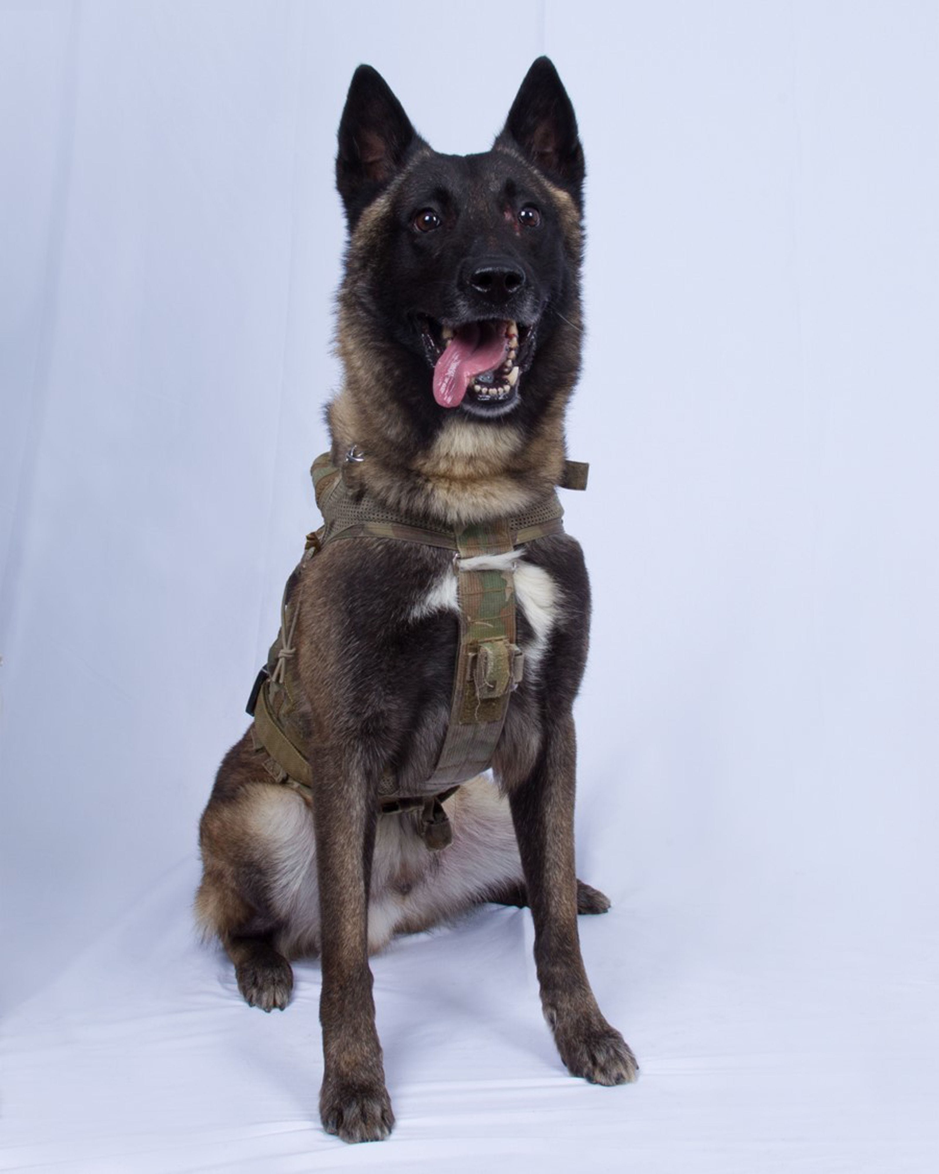 A declassified image of Conan that helped capture and kill Abu Bakr al-Baghdadi, the leader of ISIS